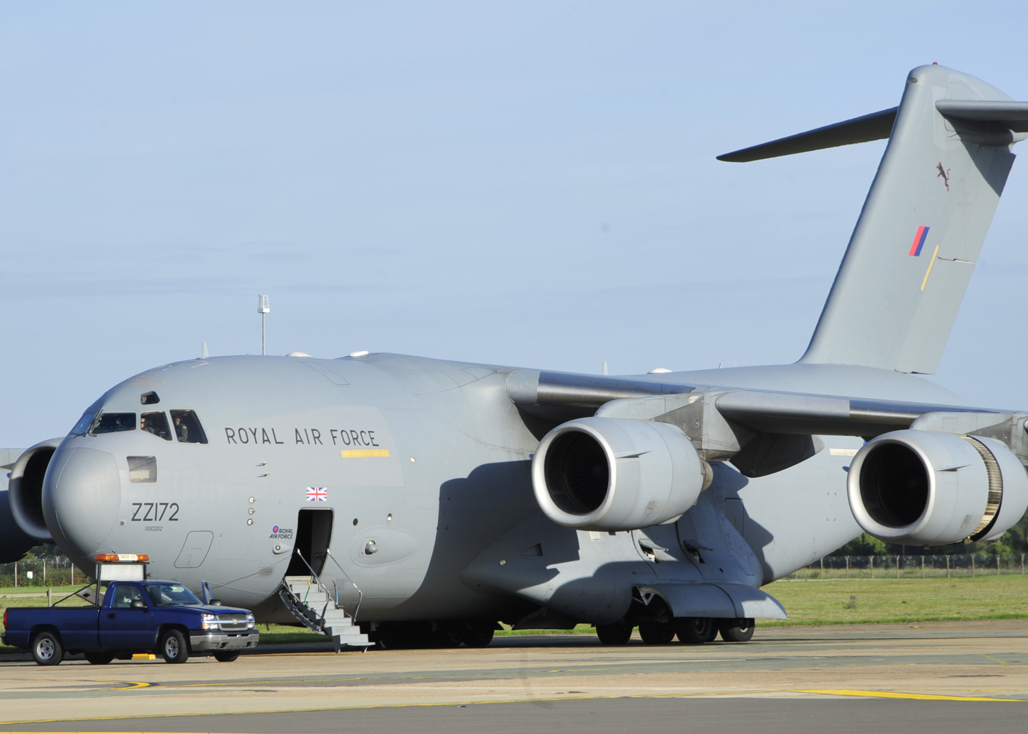 A Royal Air Force C-17 Globemaster from Brize Norton U.K. at RAF Lakenheath Aug. 25. 2010